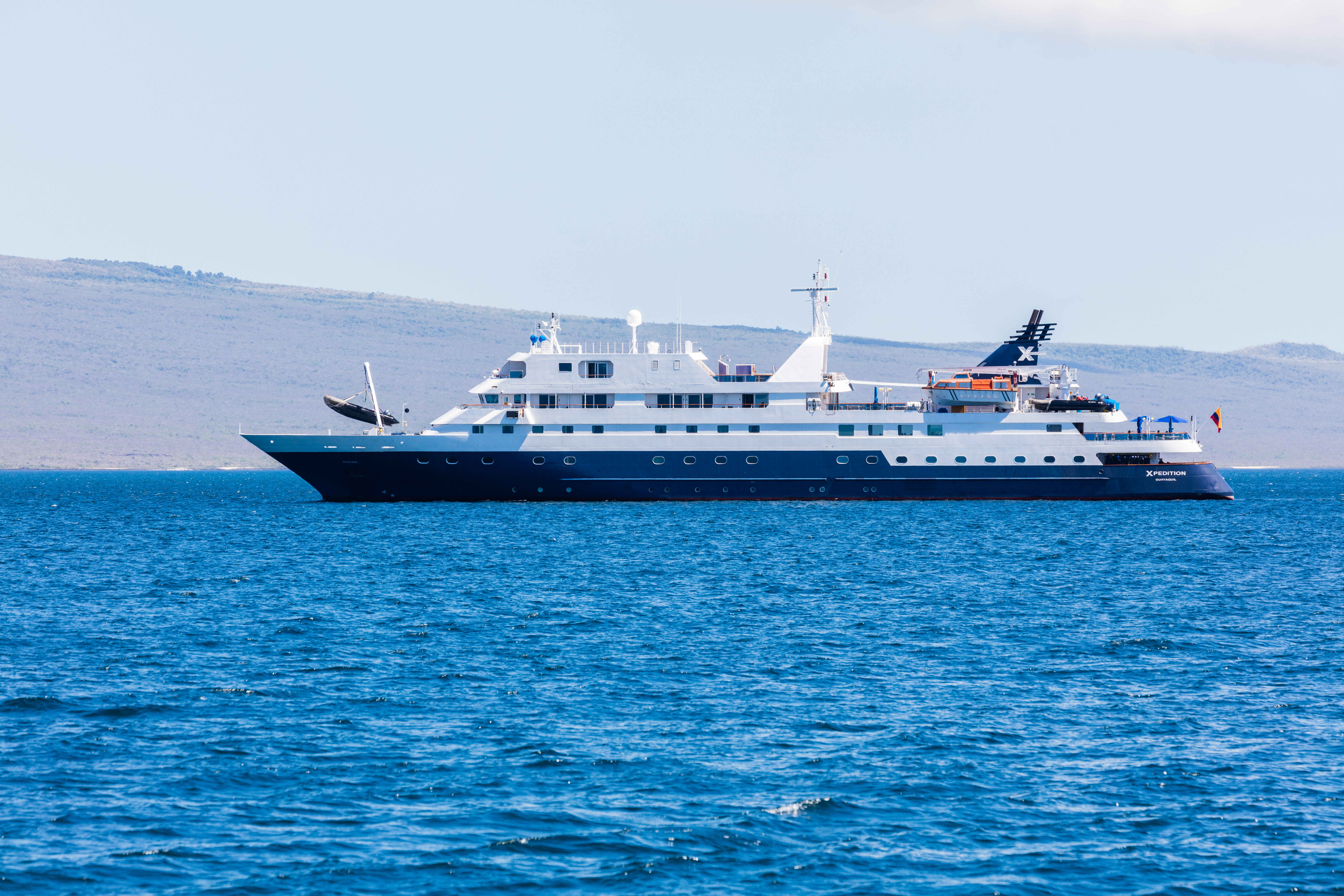 Xpedition vessel, San Cristobal Island, Galapagos Islands, Ecuador